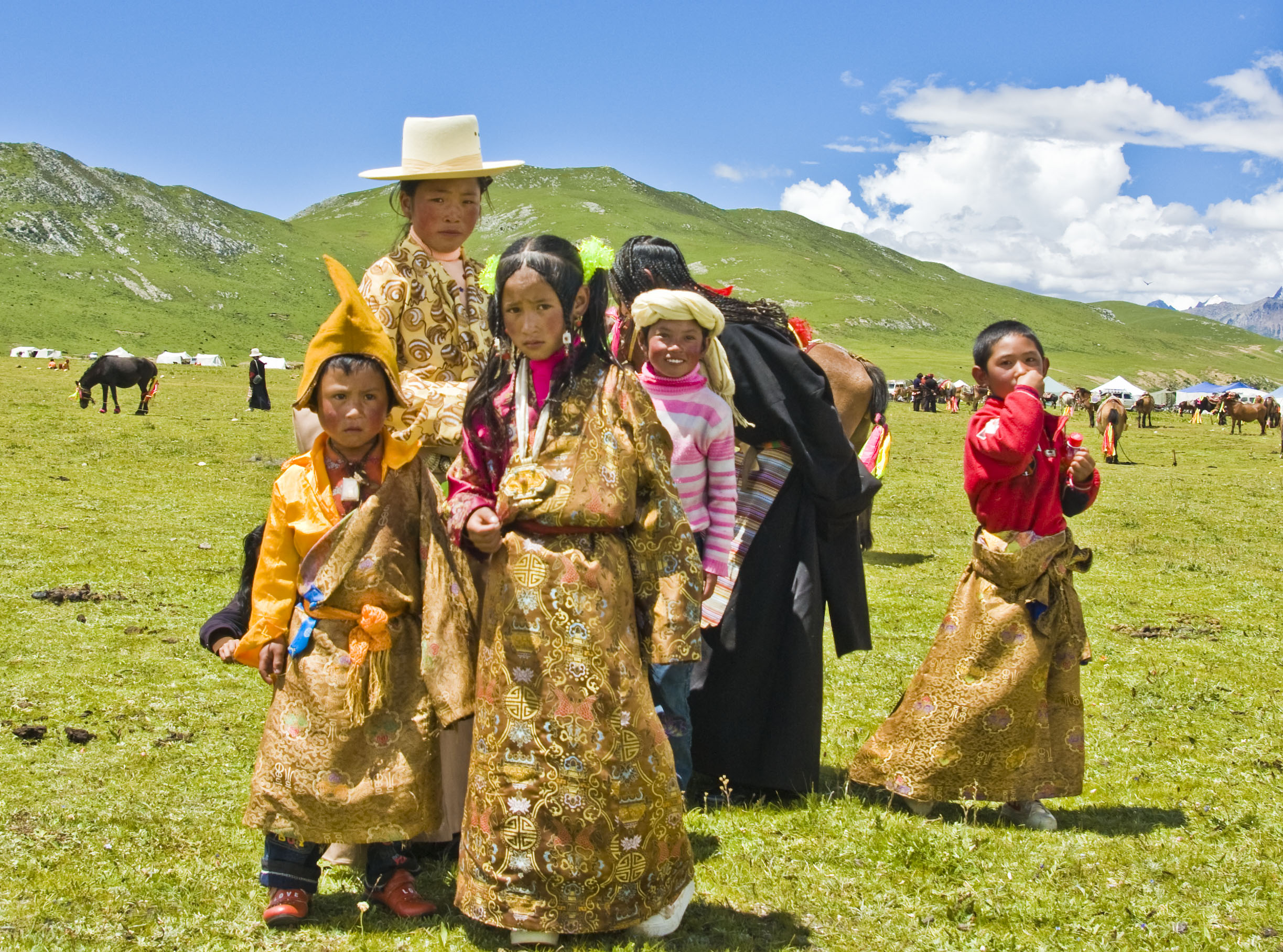 Kids in the Kham (in a horse festival)